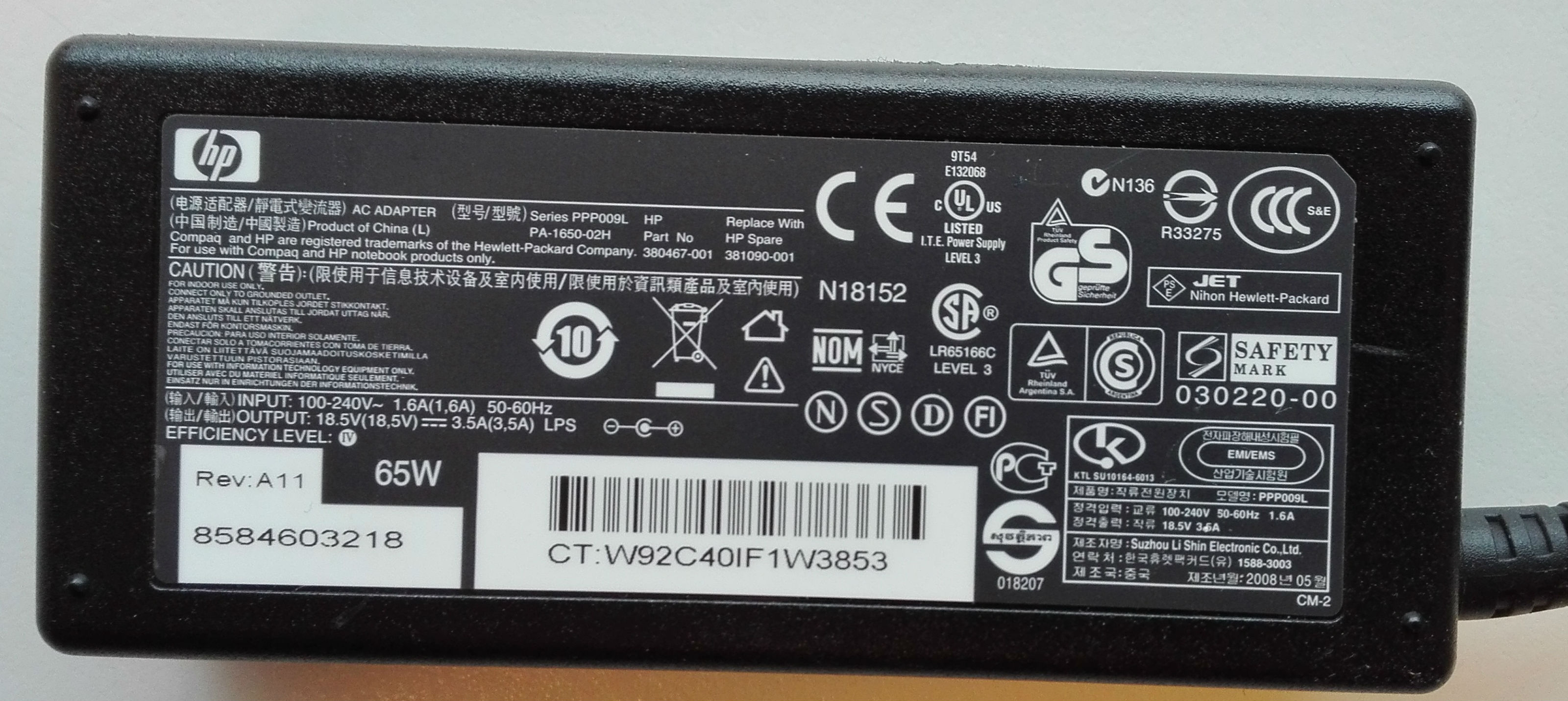 Laptop power supply, upperside. Note the large input voltage range (nominal voltages) 100...240VAC